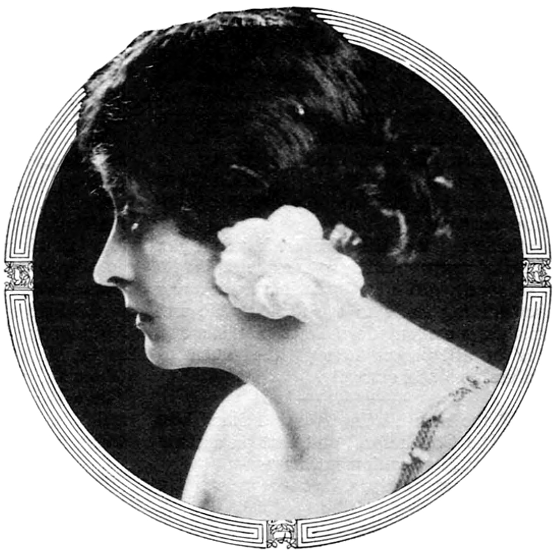 Promotional photograph of Clara Kimball Young in the American drama film Camille (1915).